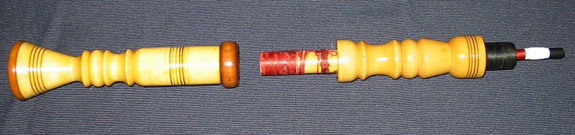 The "tenor drone" of Baghèt with its sections dismounted